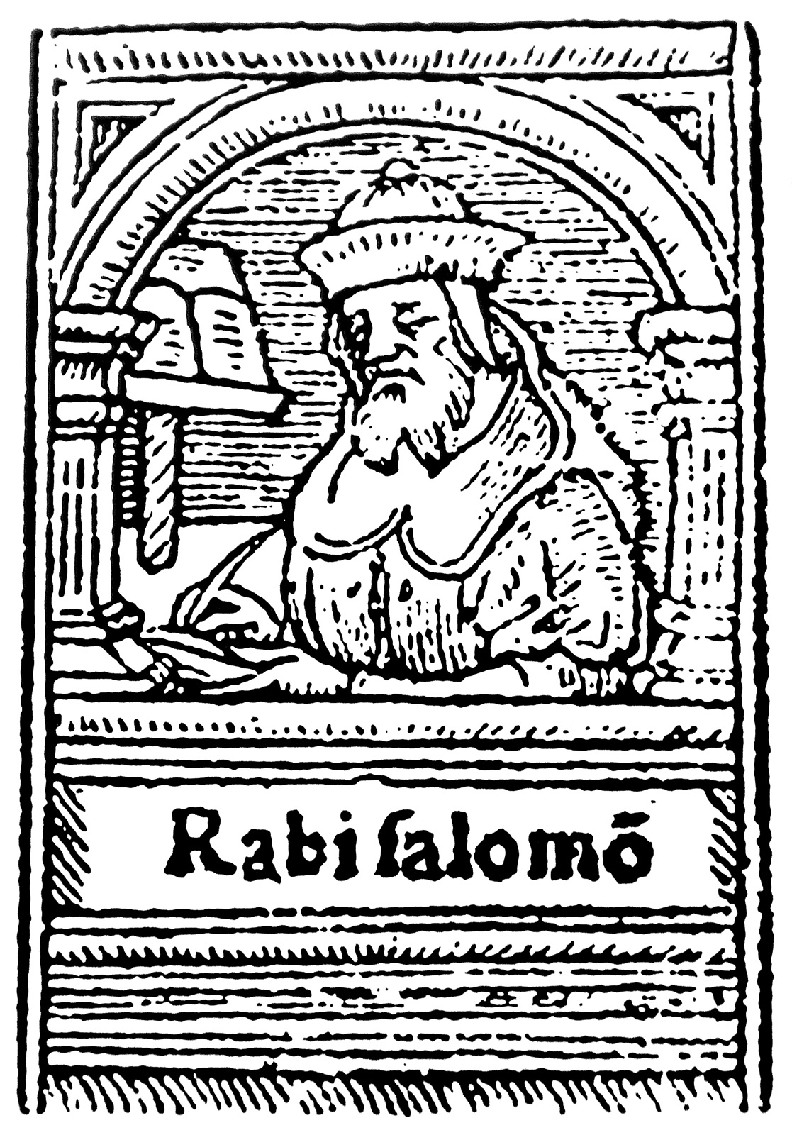 Guillaume de Paris: Postillae maiores totius anni cum glossis et quaestionibus (Lyon, 1539)